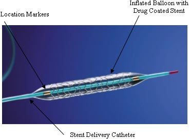 Photograph of the Taxus drug-eluting stent, from the web site of the U.S. Food and Drug Administration.